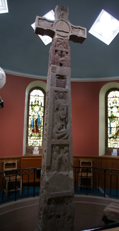 Ruthwell Cross, Ruthwell and Mount Kedar Church, Ruthwell, Dumfries and Galloway, Scotland. South side.